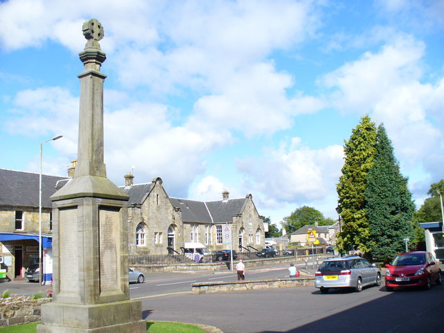 Kinross War Memorial This memorial sits outside the former Kinross-shire County Buildings. On the far side of the main road north is Kinross High School.